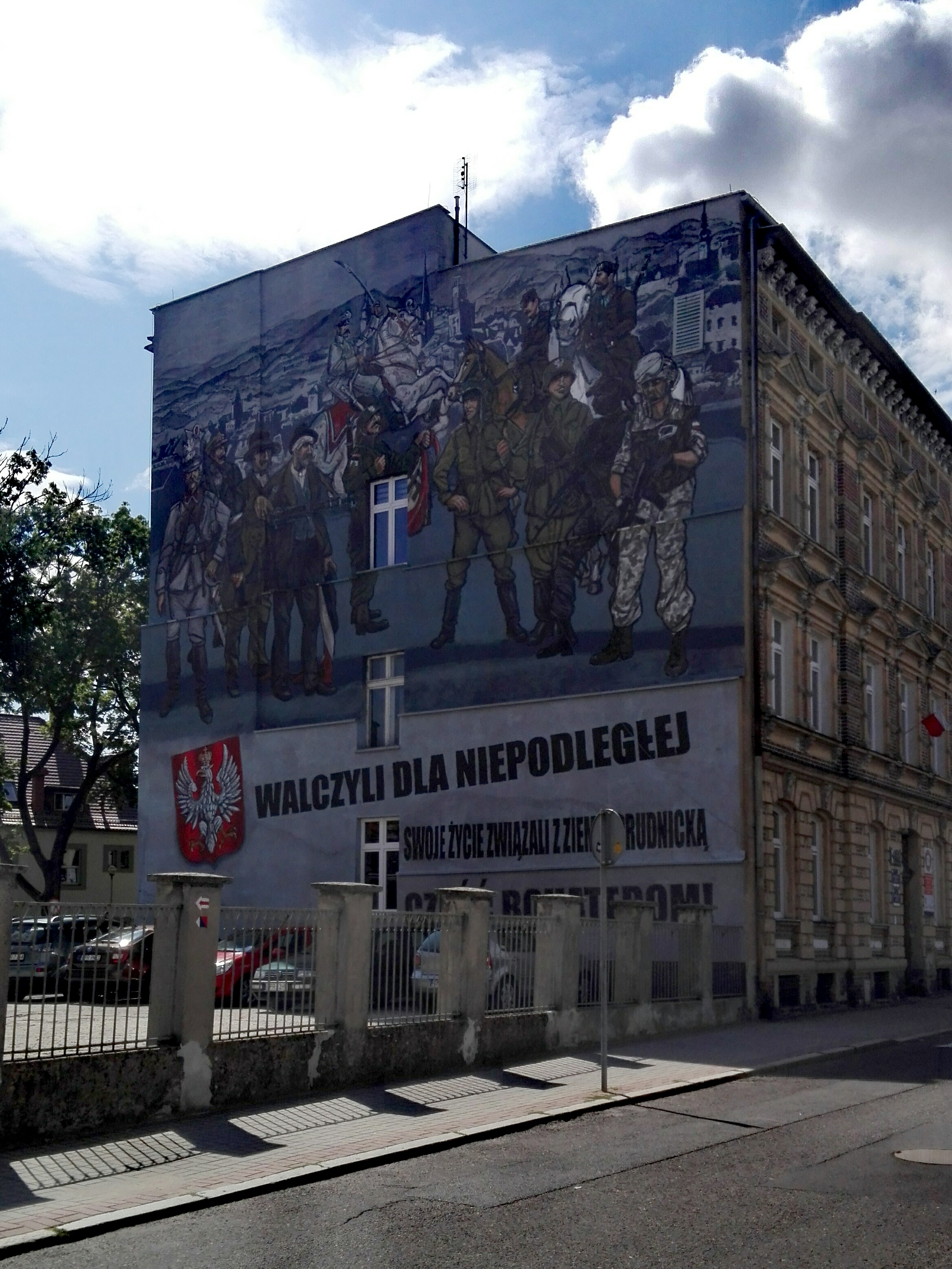 4 Klasztorna Street in Prudnik